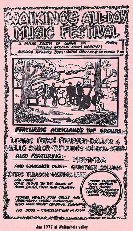 Waikinos_all_day_Music_festival_1976.jpg- Image (photograph) taken by Official Nambassa Photographer and uploaded by User:StoneHenge007, Nambassa dot com Terms of Use: 1/ All users of this image are required to attribute this work to "Nambassa Trust and Peter Terry" and the URL: " " is to accompany all use. 2/ Attribution. You must attribute the work in the manner specified by the author or licensor. 3/ For any reuse or distribution, you must make clear to others the license terms of this work. Statement by Nambassa Trust and Peter Terry